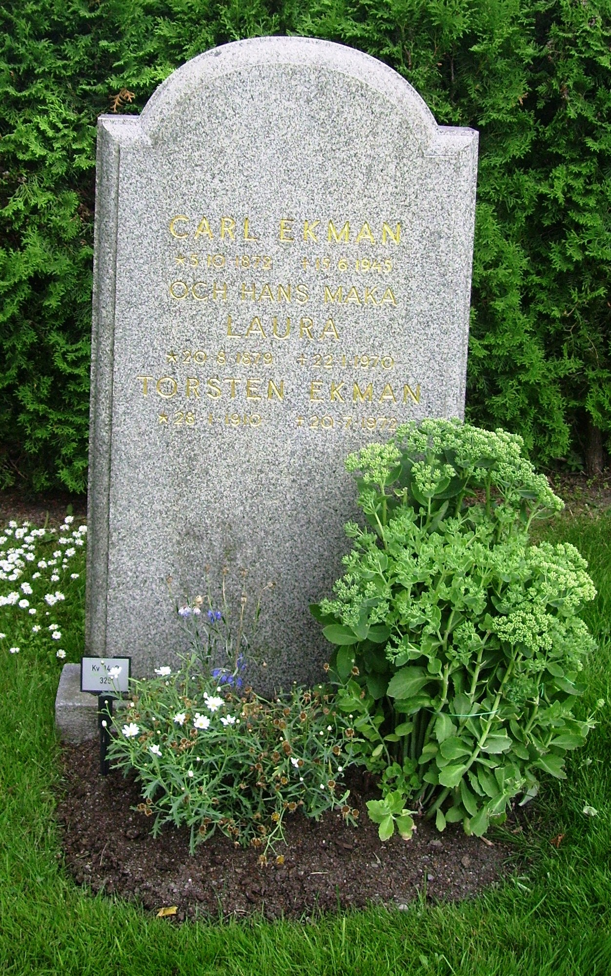 Picture of Carl Ekman's grave at Norra begravningsplatsen in Solna